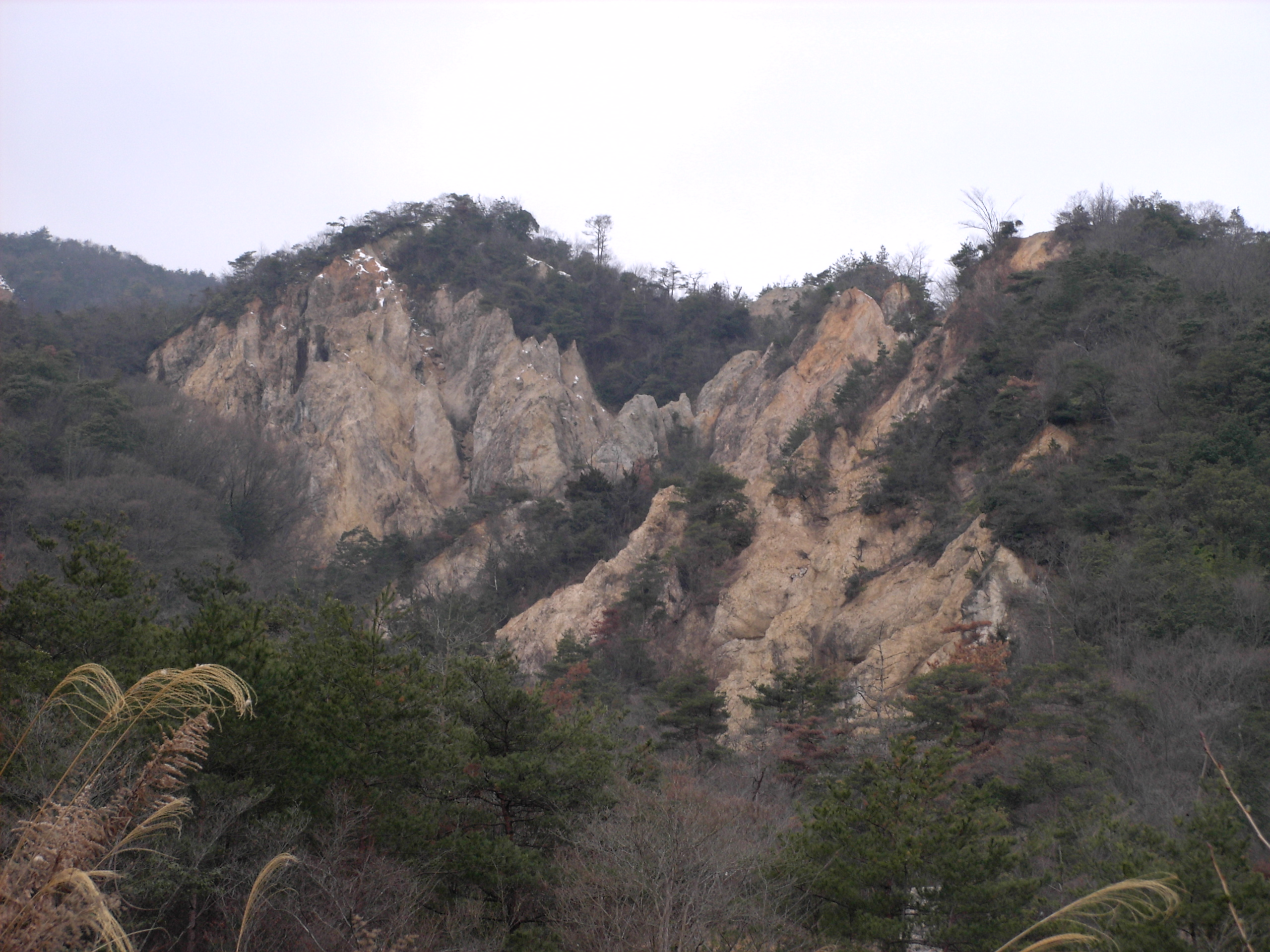 A Scene of Horai Valley, Hyogo, Japan. From East side. Taken by Mass Ave 04/02/08.